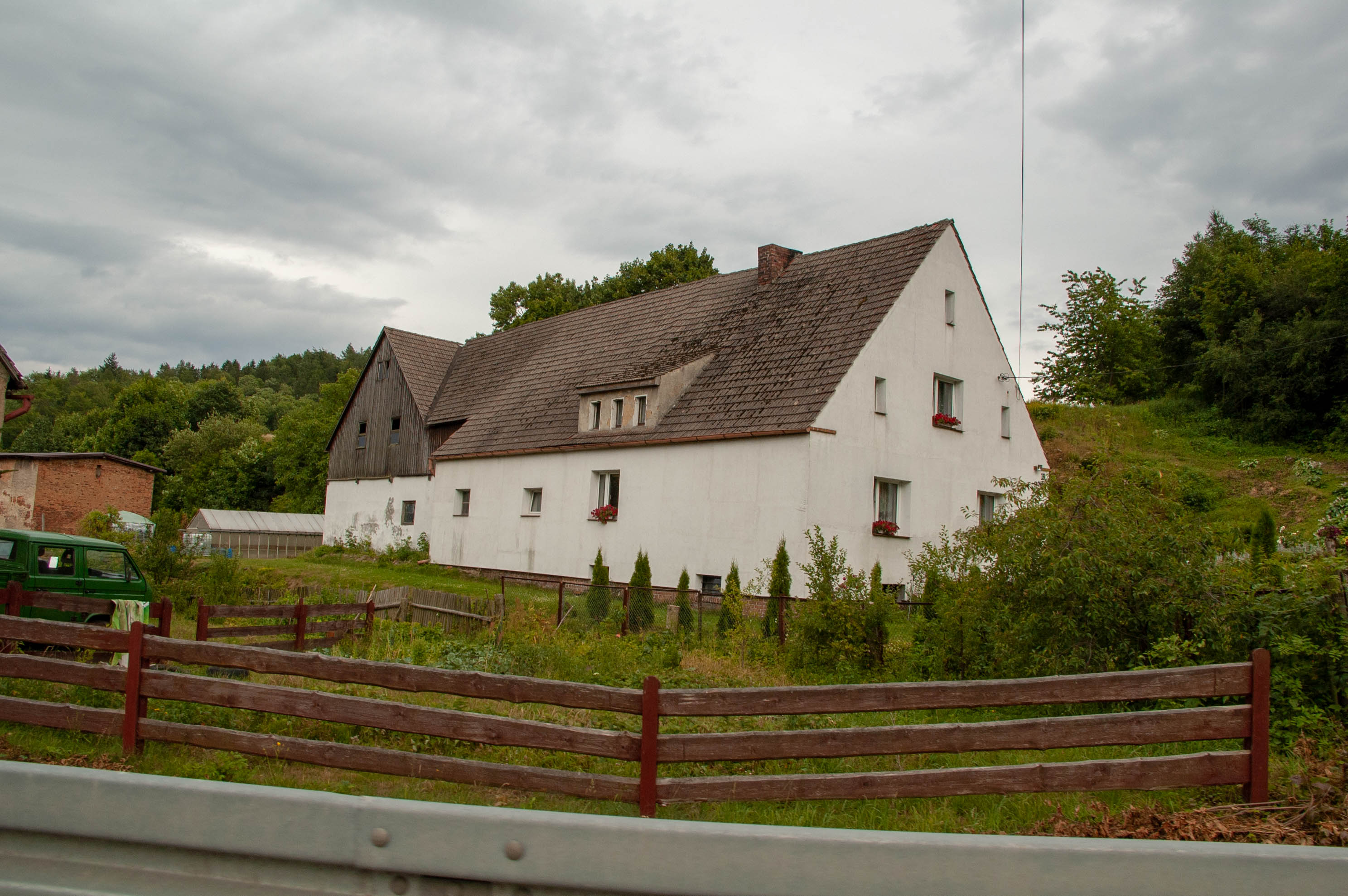 This photograph was created as a part of Wikiexpedition Lower Silesia, a project supported by Wikimedia Poland grant.